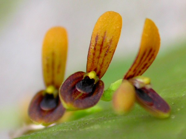 Blooming 25/jan/2013 - in Piracicaba, São Paulo, Brazil